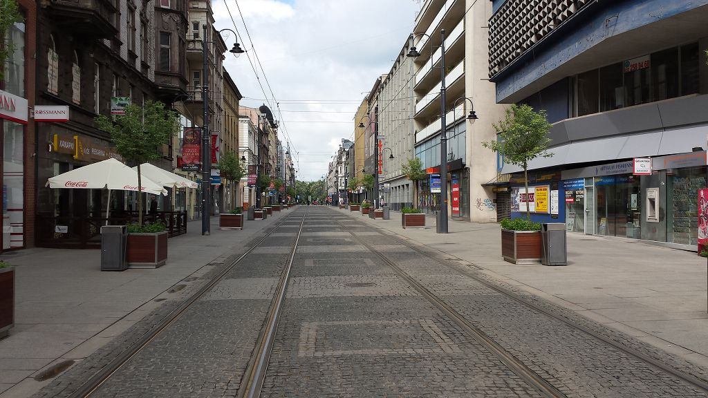 Ulica 3 Maja (Katowice) after the reconstruction